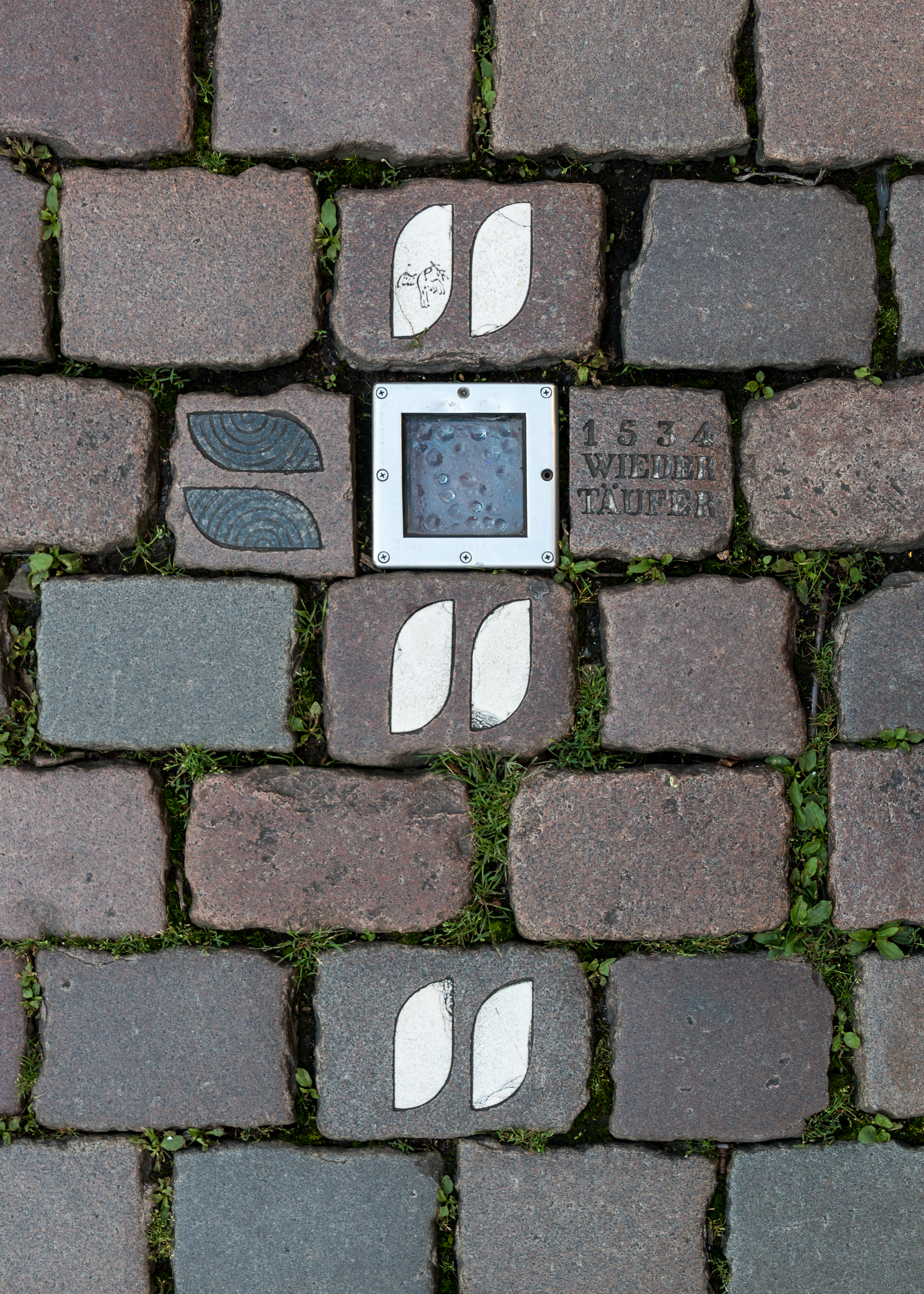 Sculpture “Wasser in Münster” (Adolph W. Knüppel, 2000) at the Prinzipalmarkt, Münster, North Rhine-Westphalia, Germany Sculpture TitleWasser in MünsterArtistAdolph W. KnüppelDate2000